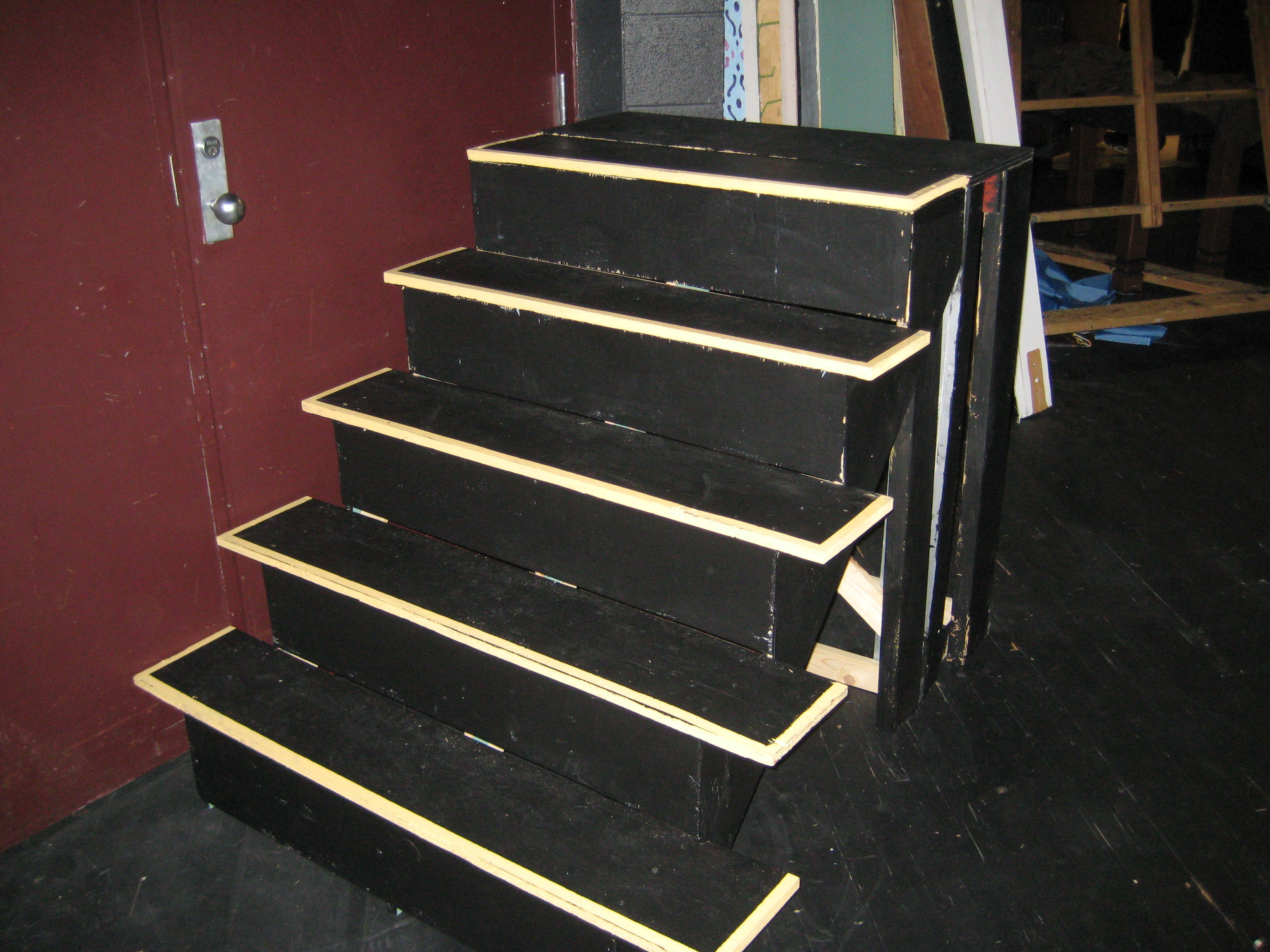 A custom stair case used during the Hilliard Arts Council's production of the King and I. These stairs were custom built by Hilliard Davidson High School students, Hilliard, Ohio.